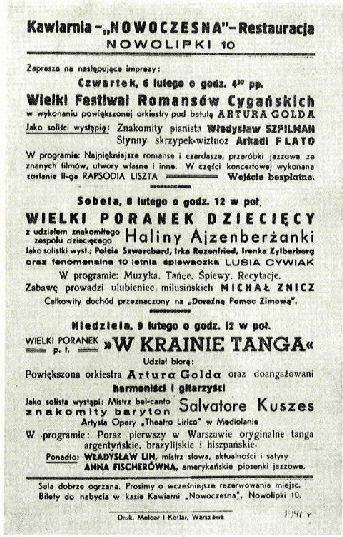 Poster advertising events in the Café Nowoczesna, Warsaw ghetto, 1941. One of the entertainers is the pianist Władysław Szpilman. See The Pianist (2002 film).